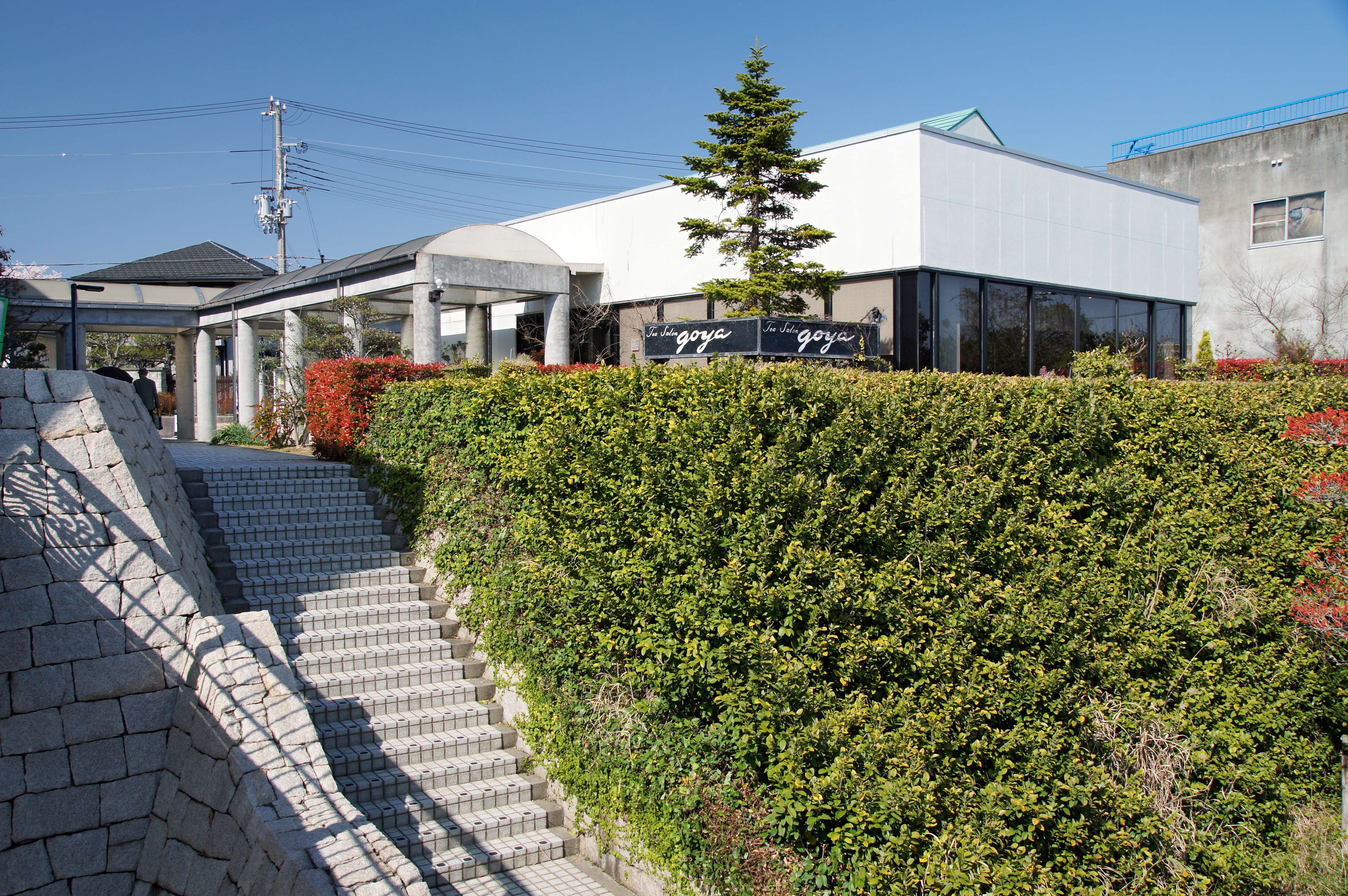 Akashi City Museum of Culture in Akashi, Hyogo prefecture, Japan